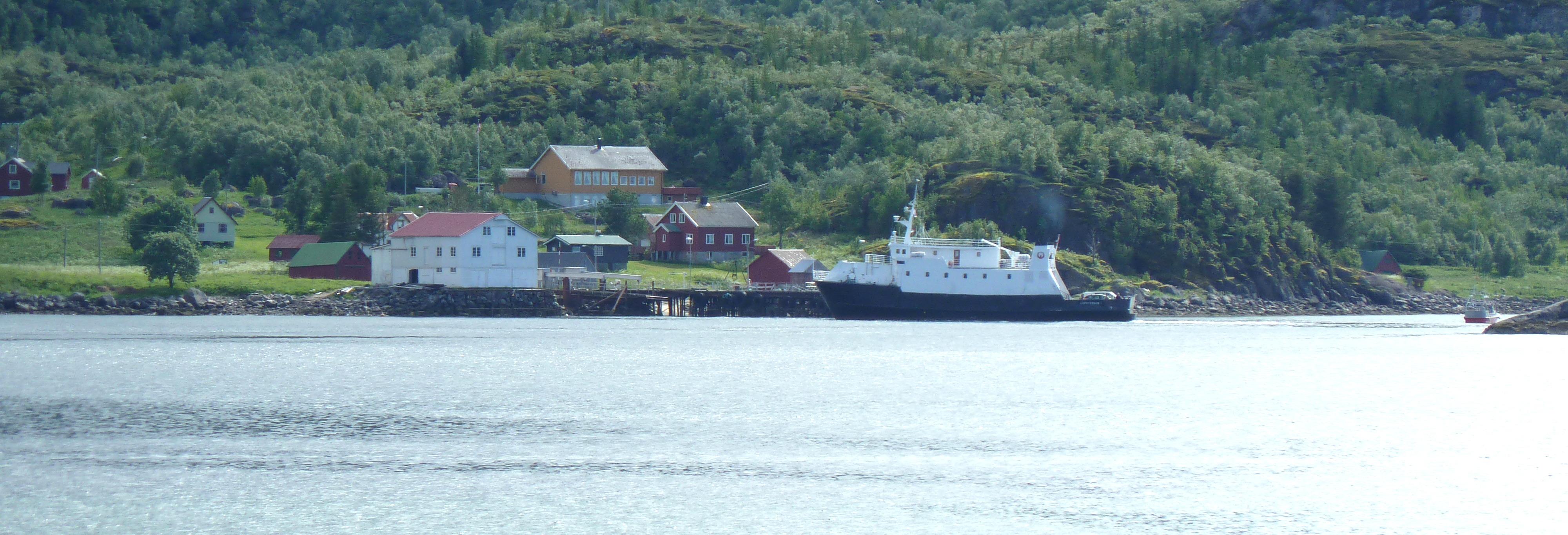 The tiny village Lonkan in Hadsel, Norway, with less than 20 inhabitants, is a roadless community. The carferry Lofotferje 1 is one of two public services that runs to the village (one passenger speed boat runs to the village too) Picture is taken from the closest village, Hennes.